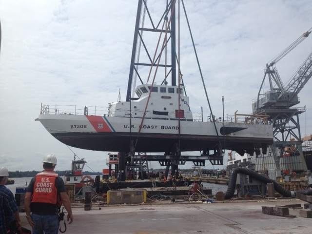 Coast Guard Yard dry-docks Cutter Chinook Original caption: "Tradesmen at the Coast Guard Yard in Baltimore lift the 87-foot Coast Guard Cutter Chinook (WPB 87308) Aug. 19, 2015, to begin the patrol boat's 60-day planned maintenance under the Coast Guard's 87-foot Bow-to-Stern program. Repairs will be accomplished under a plastic-wrapped scaffold system that is climate controlled, permitting maintenance regardless of hot summer temperatures or afternoon storms. (U.S. Coast Guard photo by Lt. Cmdr. Miles Randall, Yard)"